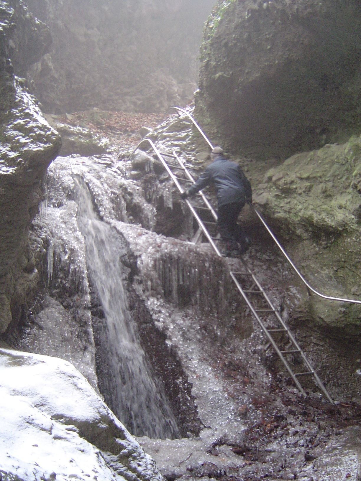 Rám Cleft near Dömös, Hungary